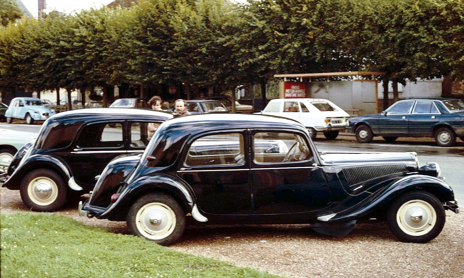 Citroen Tractions at Anet. The shot facilitates comparison of the 'before' and 'after' treatment of the rear.